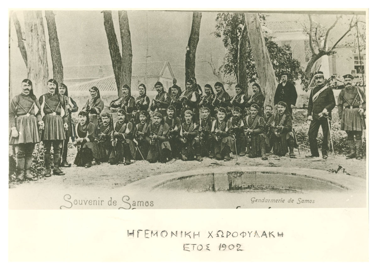 Men of the Princely Gendarmerie of Samos in 1902, wih the then-commander of the Gendarmerie, Stamatis G. Stamatis (second from right)